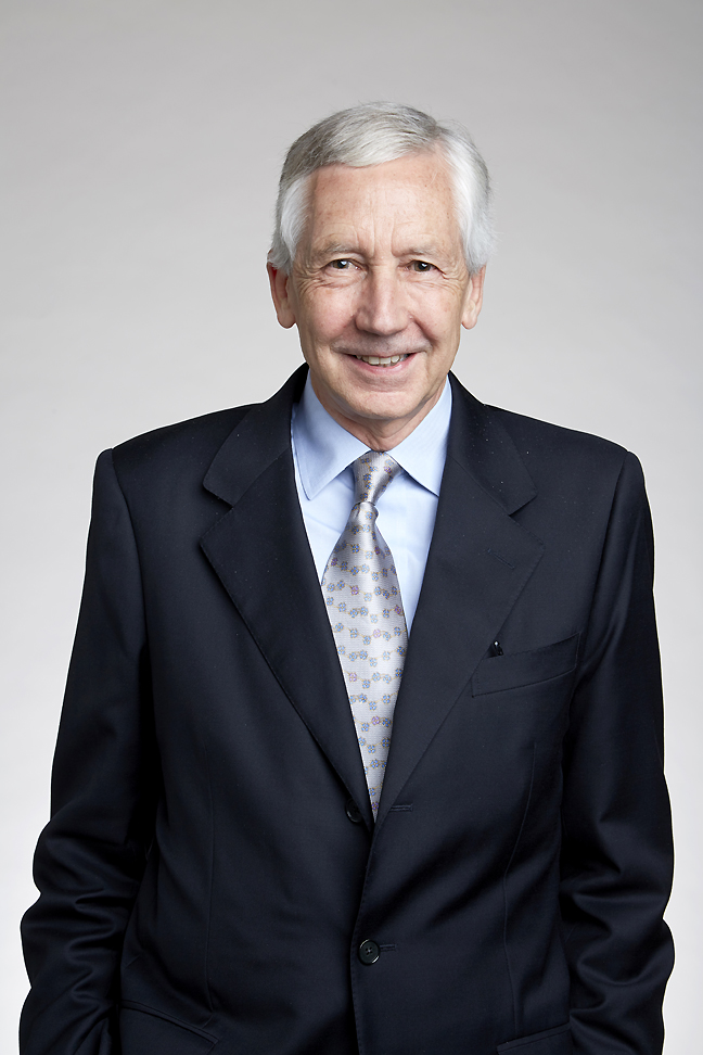 Yves-Alain Barde FRS is a Professor of Neurobiology at Cardiff University Attribution: The Royal Society